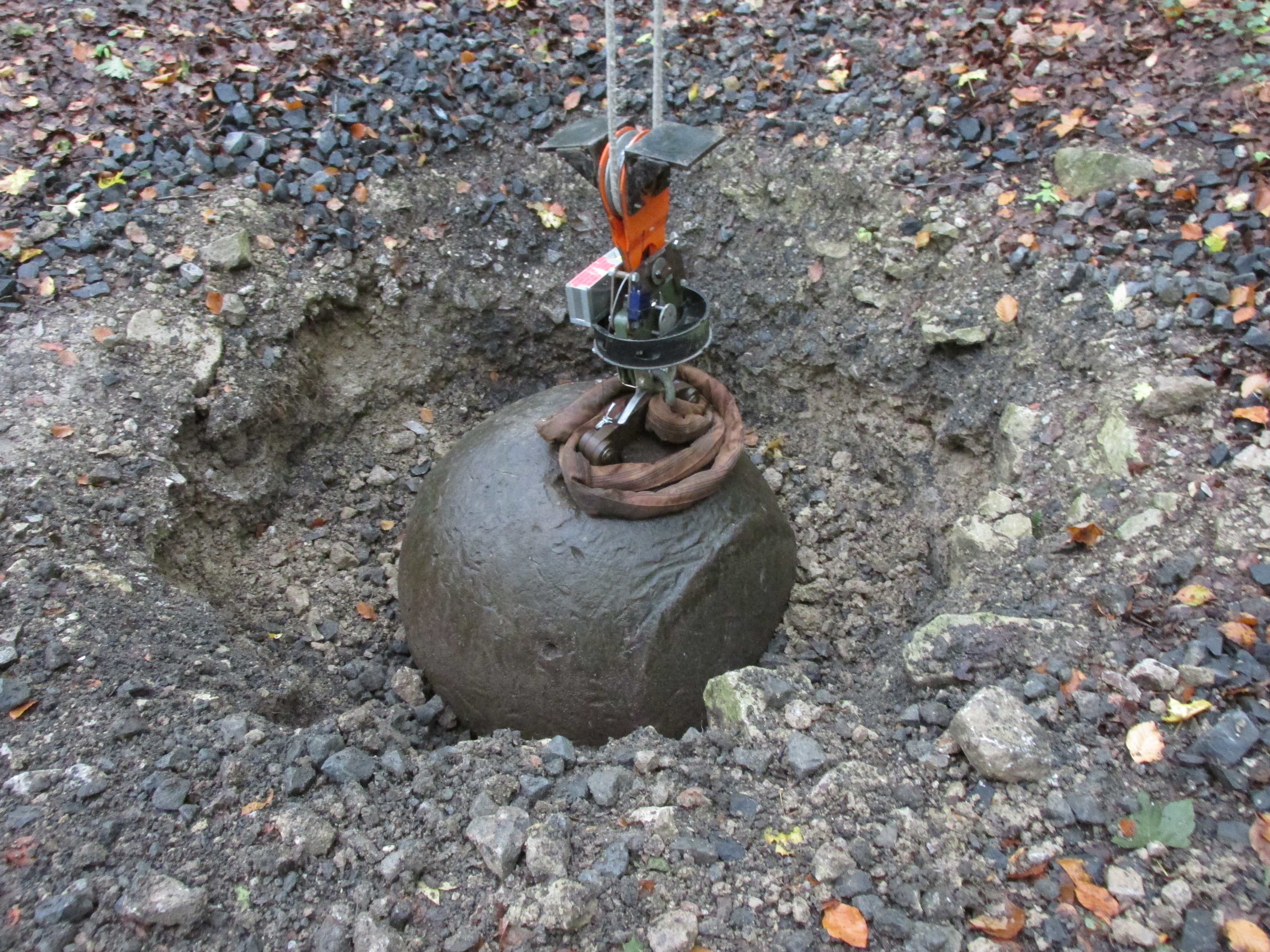 Mintrop ball before it falls, Göttingen, Germany check usage